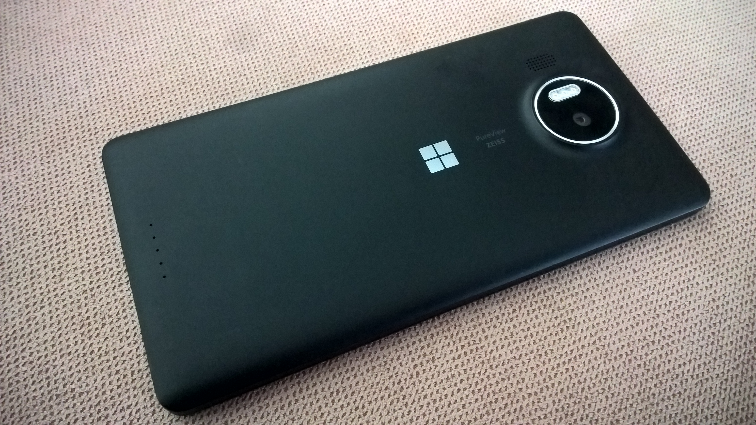 A Microsoft Lumia 950 XL made by Microsoft Mobile Oy for the Microsoft Corporation running Microsoft Windows 10 Mobile.